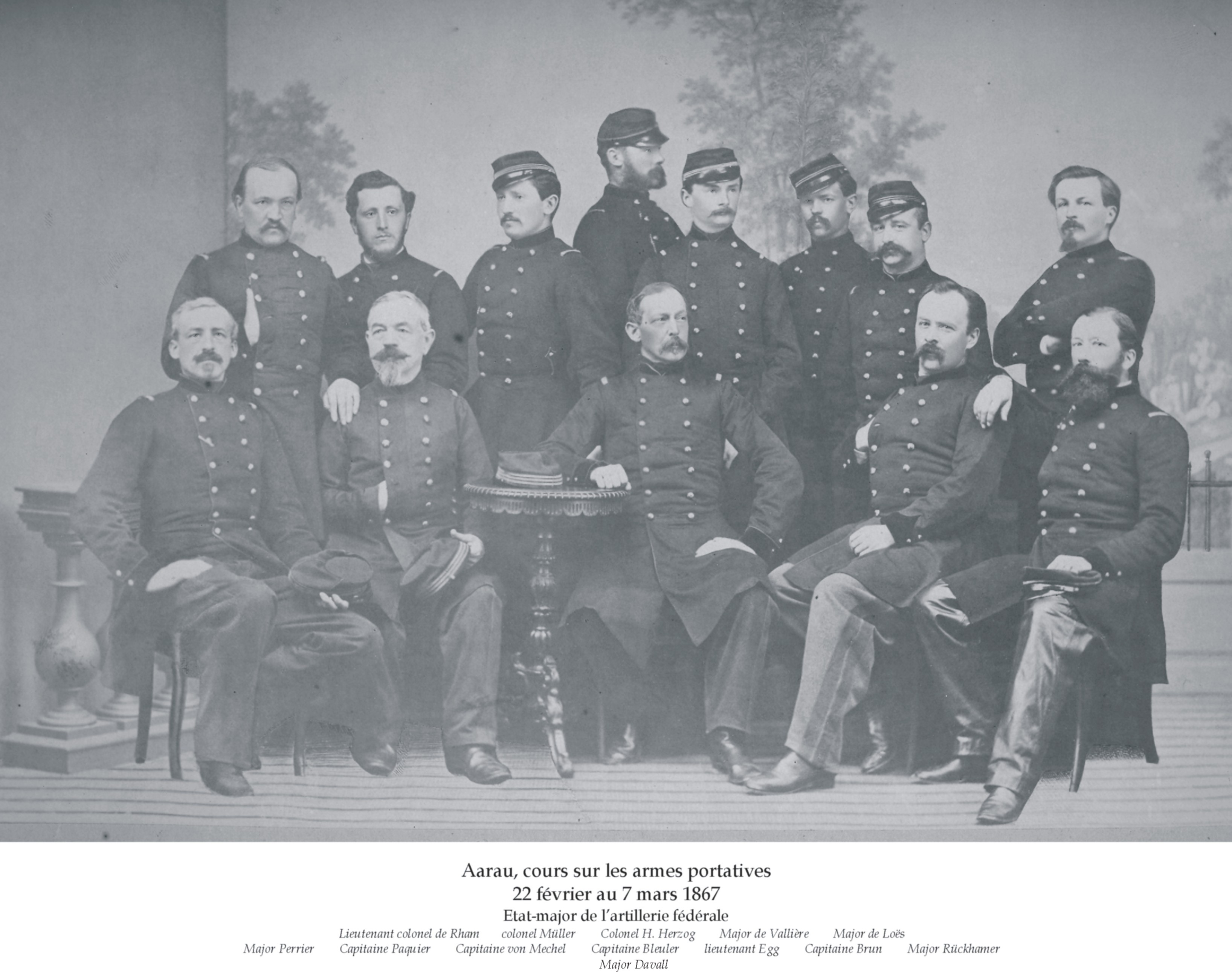 Officers of the Swiss artillery participating in a training at Aarau, 22 February to 7 March 1867. In the center, the future general Hans Herzog. Front (sitting, left to right): Lieutenant colonel de Rham colonel Müller Colonel Herzog Major de Vallière Major de Loës Back (left to right): Major Perrier Capitaine Paquier Capitaine von Mechel Major Davall Capitaine Bleuler Lieutenant Egg Capitaine Brun Major Rückhamer